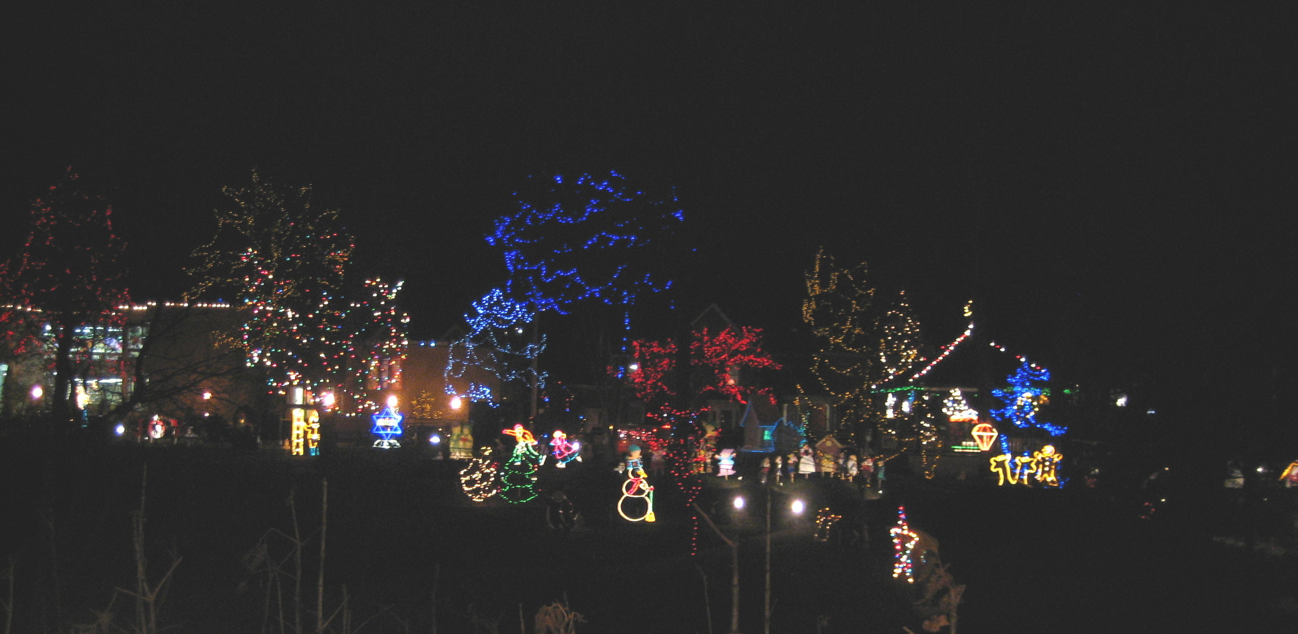 Festival of Northern Lights, Owen Sound, Ontario, Canada